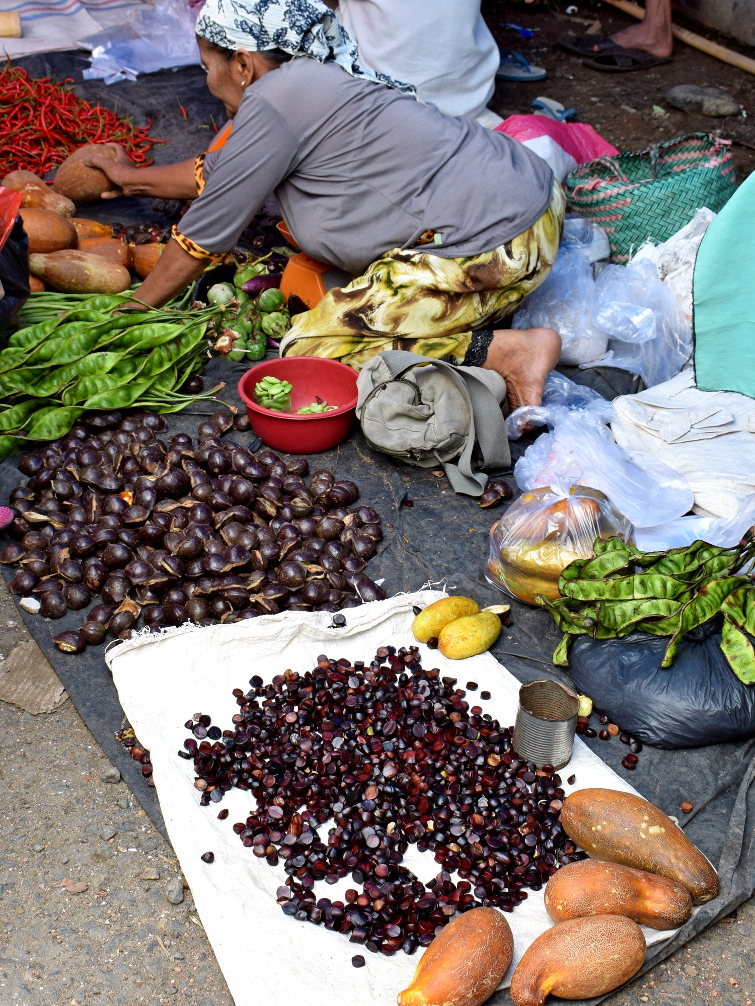 Stinky beans sold at Mukomuko market, Bengkulu, Sumatra. Green pods of petai (Parkia speciosa; upper left), purplish black pods of djenkol (Archidendron pauciflorum; middle left), and blackish purplish brown seeds of kabau (Archidendron bubalinum; middle lower, on white sack)